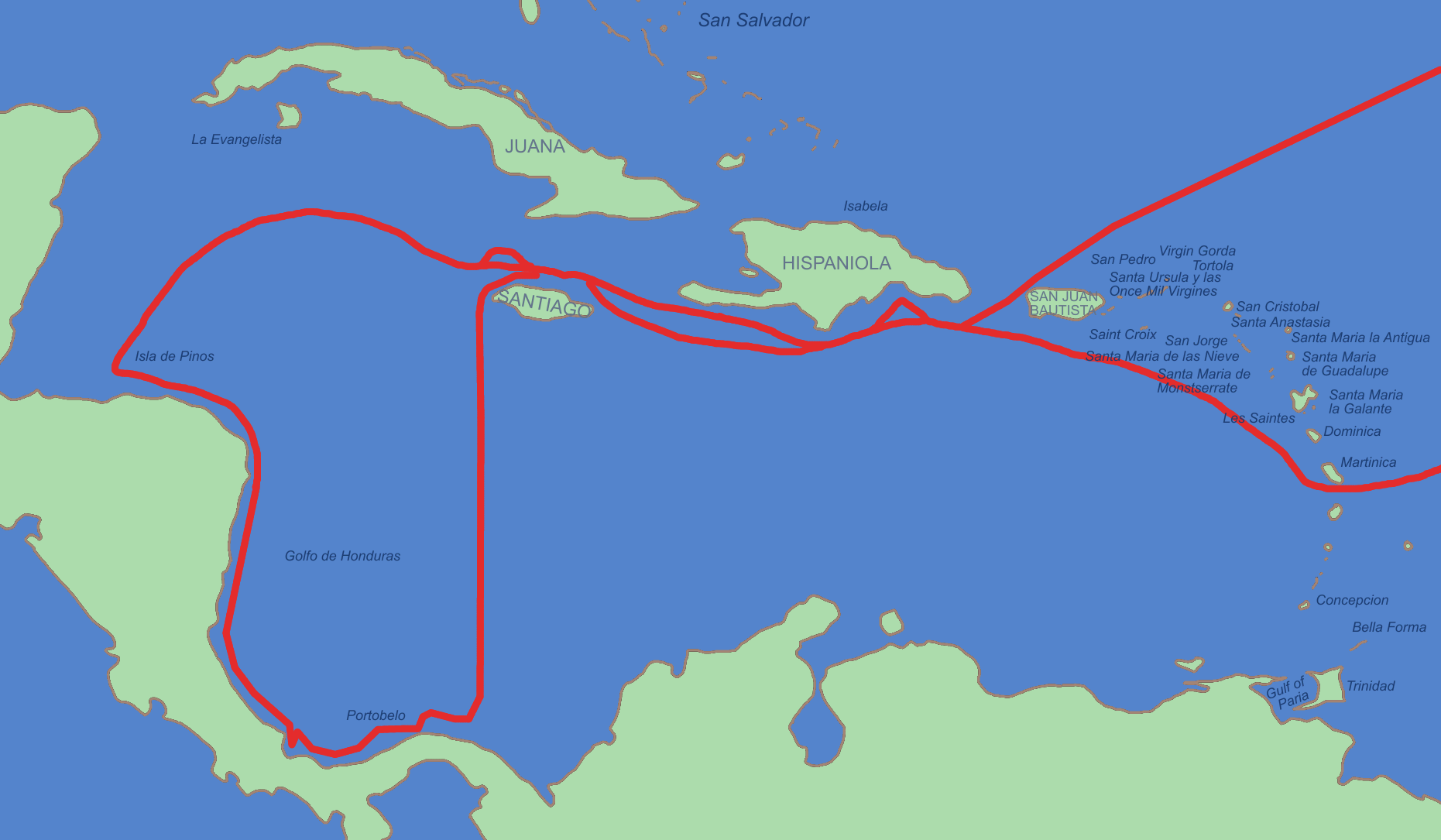 Fourth voyage of Columbus. Map uses the original Spanish names which Columbus would have known the locations as.